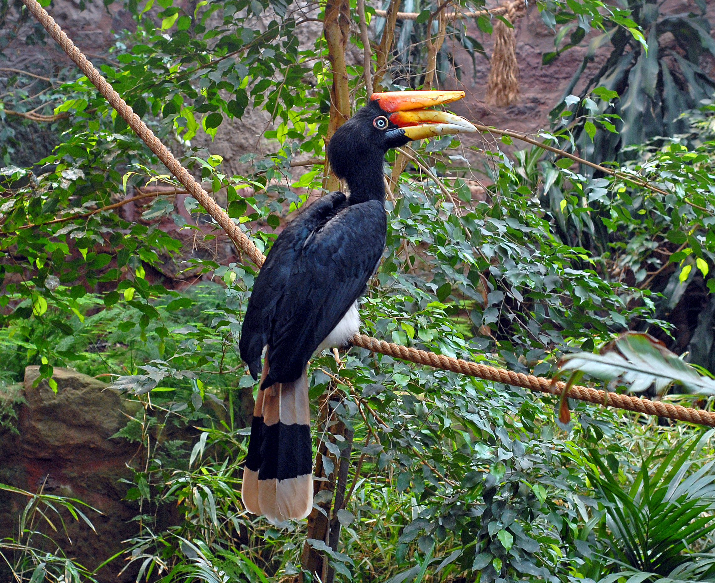 A female Rhinoceros Hornbill at Chester Zoo, England.